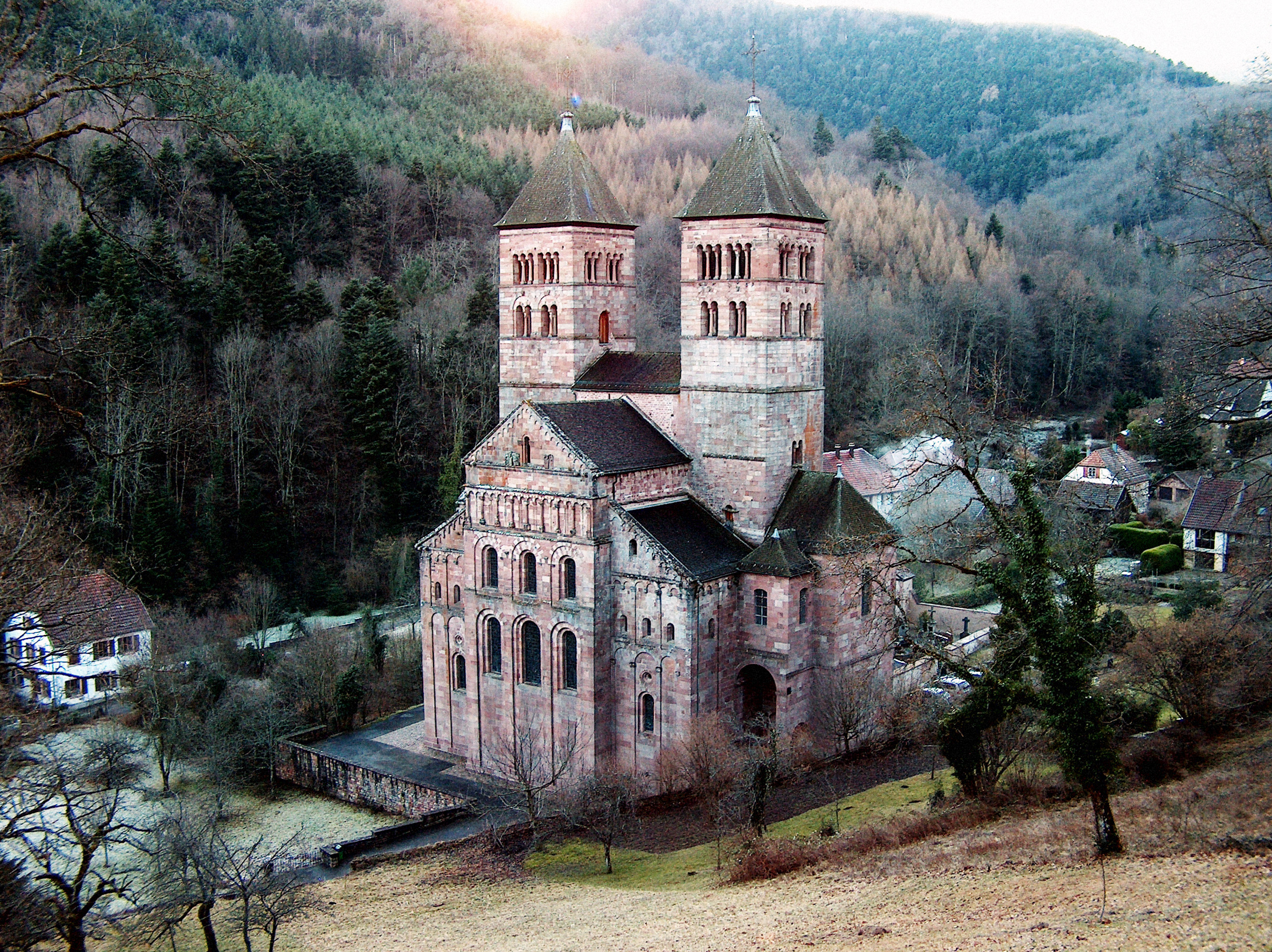 Roman Church of Murbach, Alsace, France.